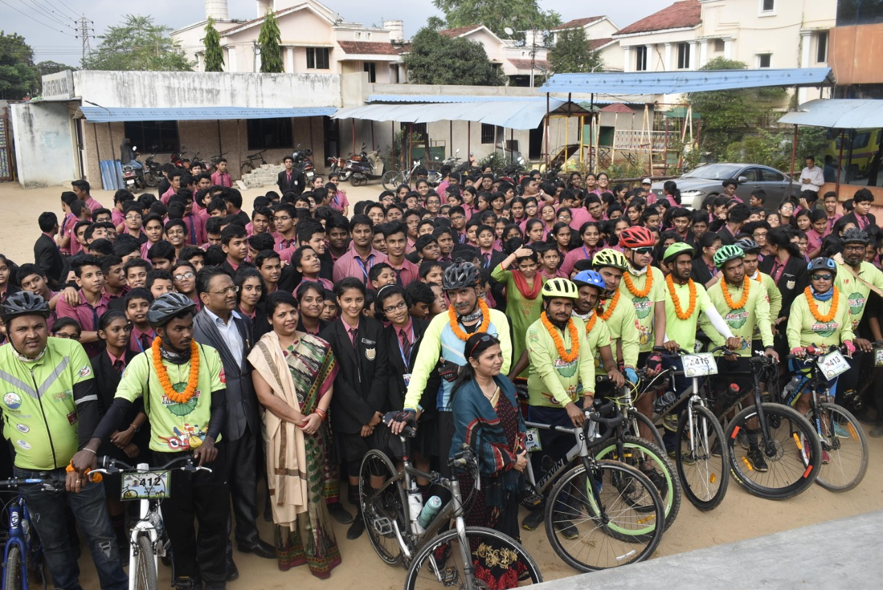 Tour De Kalinga cyclists with school students and teachers at Bhubaneswar